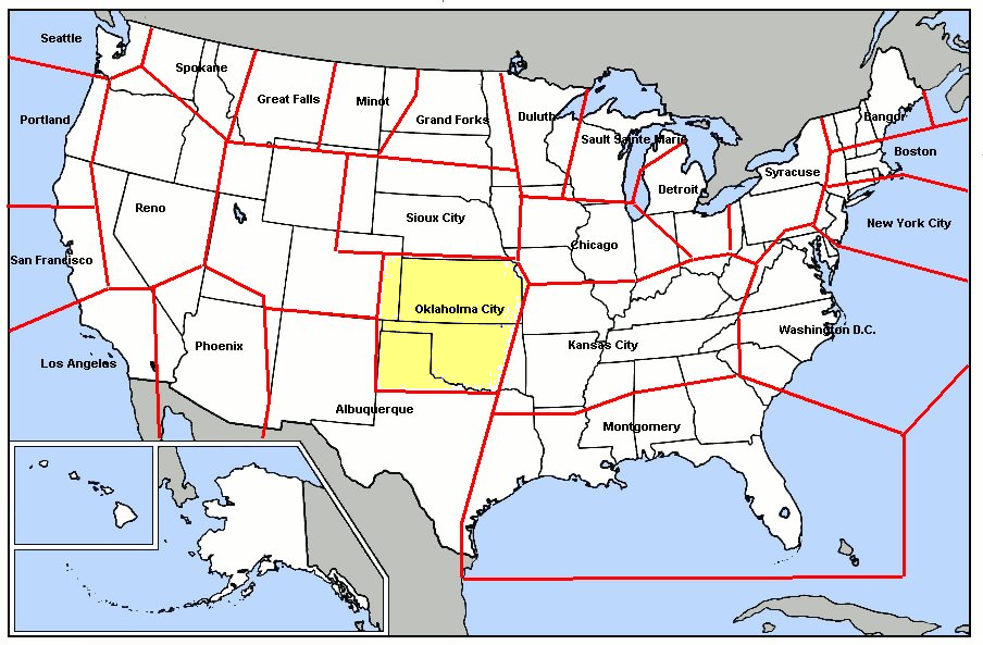 Map of Oklaholma City Air Defense Sector (Air Defense Command)